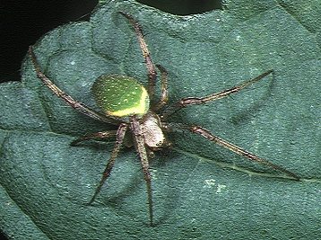 female Neoscona scylloides from Okinawa.